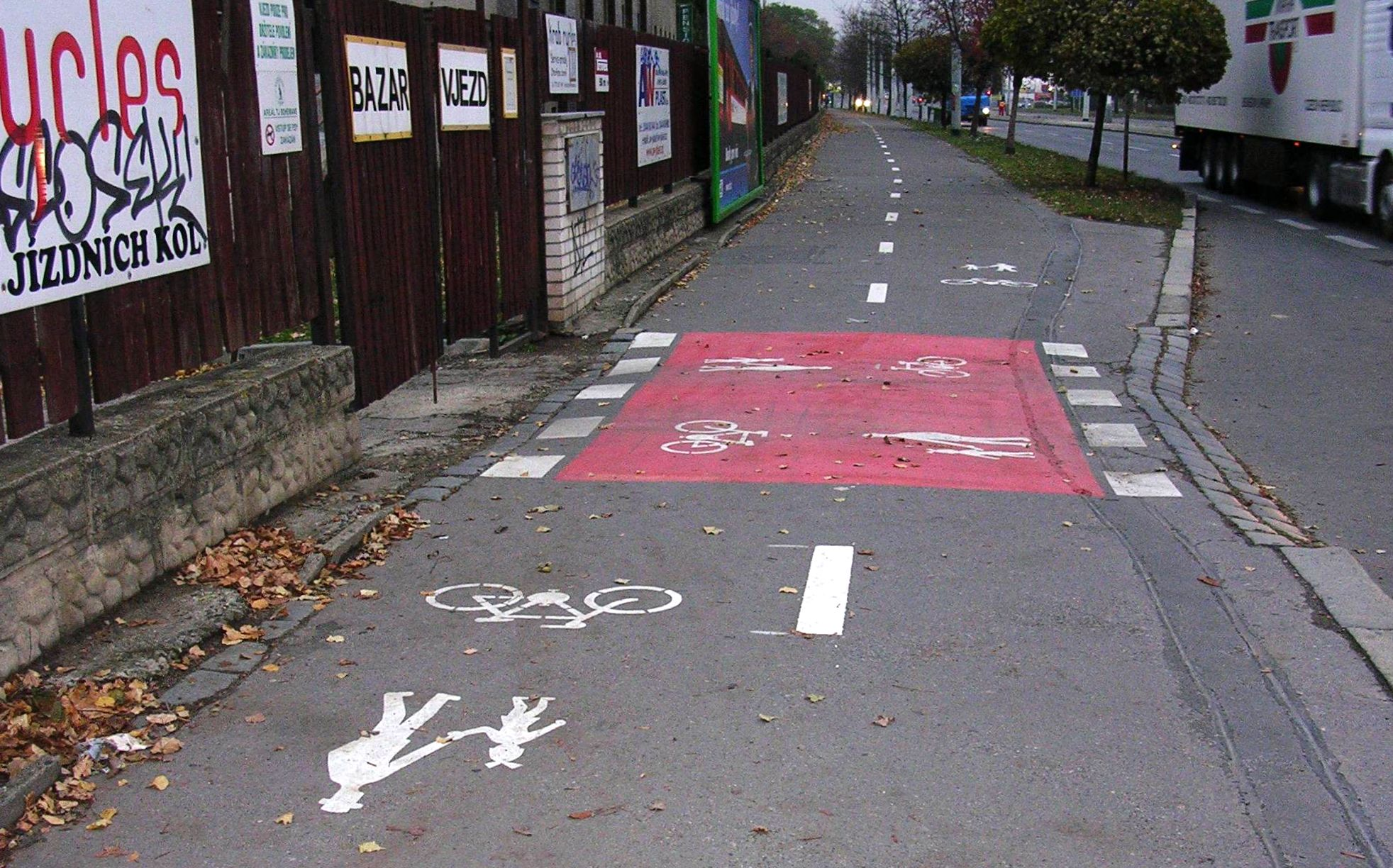 Podolí, Prague, the Czech Republic. A pedestrian and cycle path.